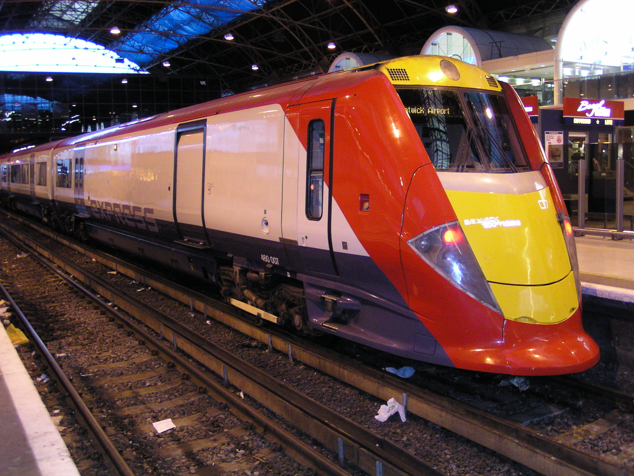 British Rail Class 460, no. 460007, at London Victoria on 27th April 2003. This is one of eight units operated by Gatwick Express on dedicated services to Gatwick Airport.